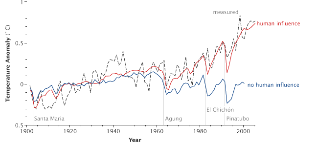 This graph shows two simulations of 20th century global mean temperatures compared with observed temperatures (dotted line). The red line (higher up on the right-hand side graph) shows simulated temperatures including human influences (e.g., greenhouse gases and aerosols), the blue line (lower down on the right-hand side graph) shows simulated temperatures excluding human influences. The graph is adapted from Hegerl et al. (2007) (referred to by the cited source).From the cited Lindsey (2010) public-domain source: "Reconstructions of global temperature that include greenhouse gas increases and other human influences (red line, based on many models) closely match measured temperatures (dashed line). Those that only include natural influences (blue line, based on many models) show a slight cooling, which has not occurred. The ability of models to generate reasonable histories of global temperature is verified by their response to four 20th-century volcanic eruptions: each eruption caused brief cooling that appeared in observed as well as modeled records." For more information, see attribution of recent climate change.References: Hegerl, G., et al. (2007). Chapter 9: Understanding and attributing climate change. In Climate Change 2007: The Physical Science Basis. Contribution of Working Group I to the Fourth Assessment Report of the Intergovernmental Panel on Climate Change. (Solomon, S., et al., (eds.)), Cambridge University Press.